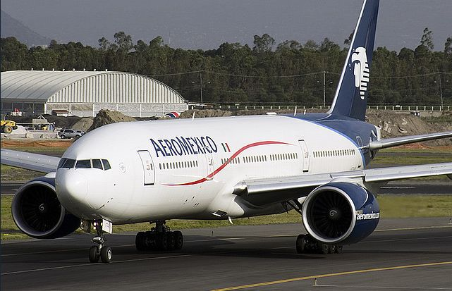 Aeromexico b777 new livery